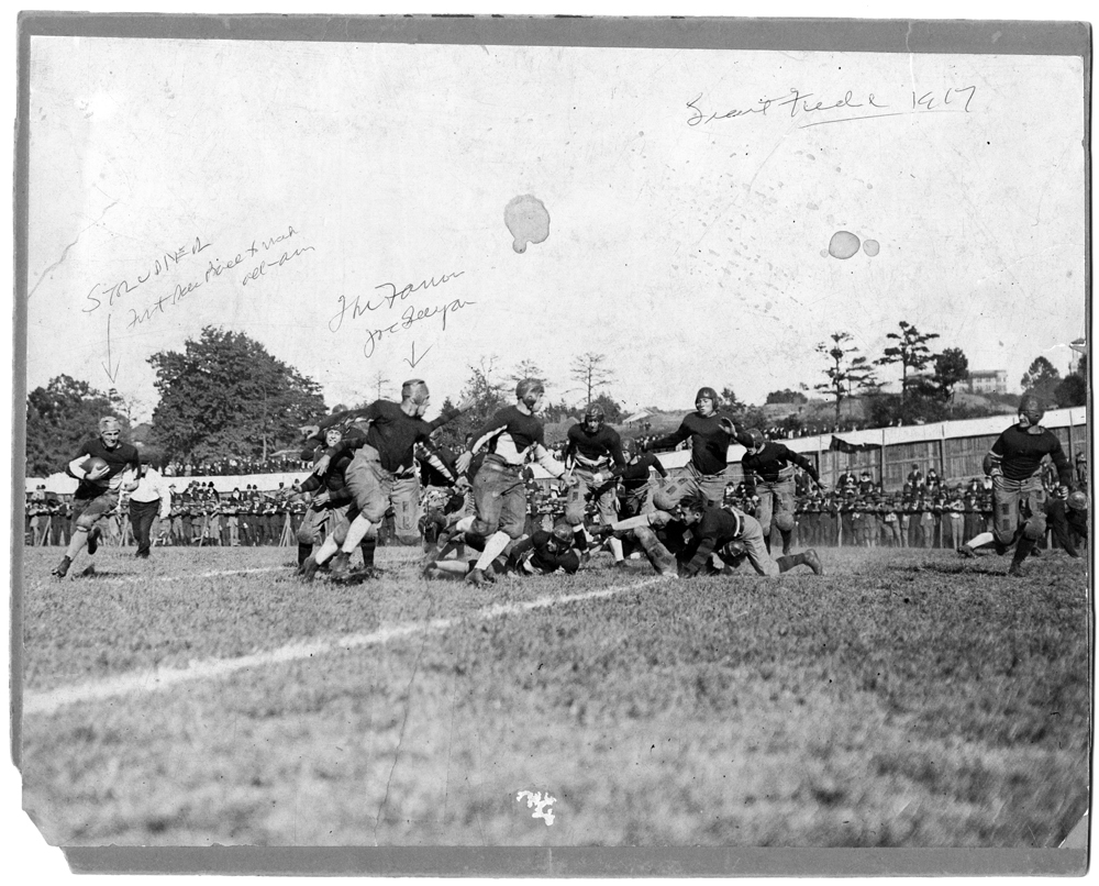 Georgia Tech against Penn in 1917. Everett Strupper with ball, running for what was a 65-yard touchdown.